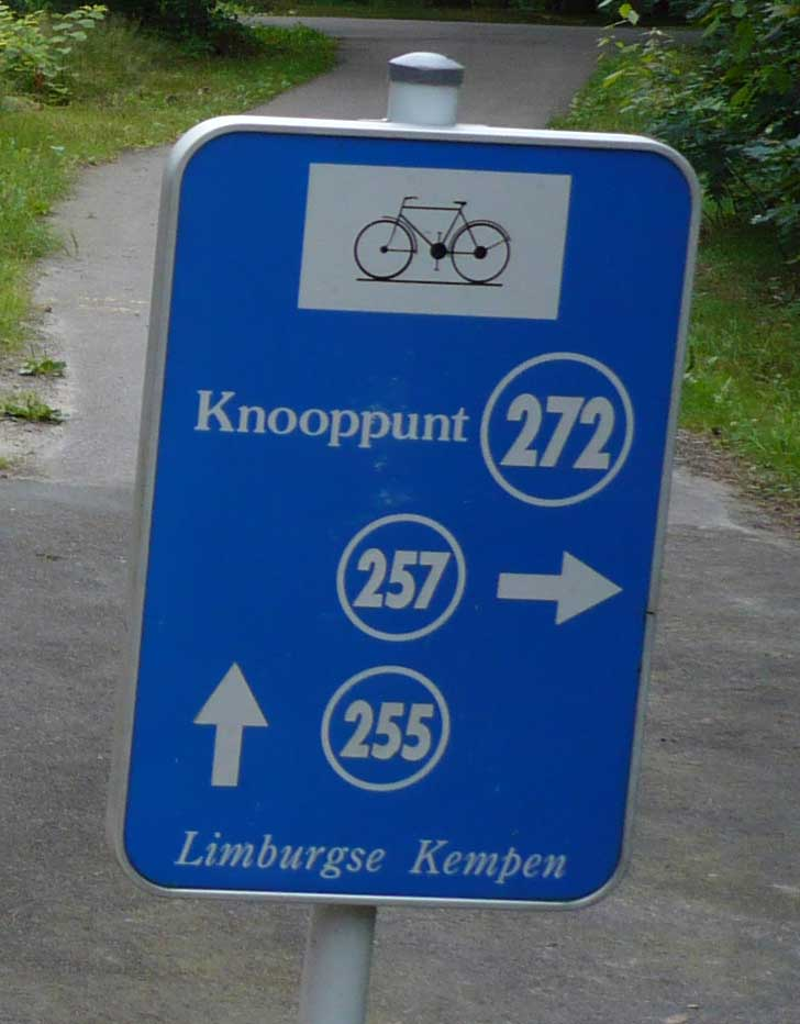 Signalisation of Fietsroutenetwork in Limburg, Belgium